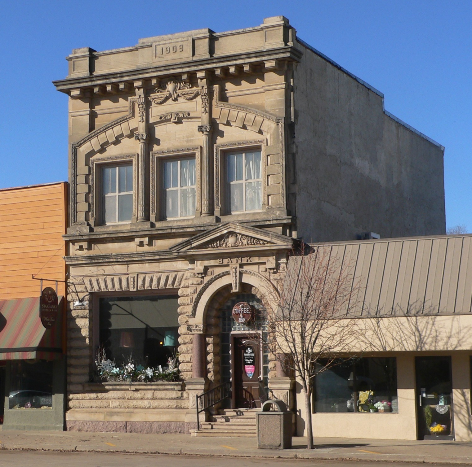 StarBanks Coffee & Wine, occupying Farmers State Bank building at 404 S. Main Street in Platte, South Dakota; seen from the northeast.